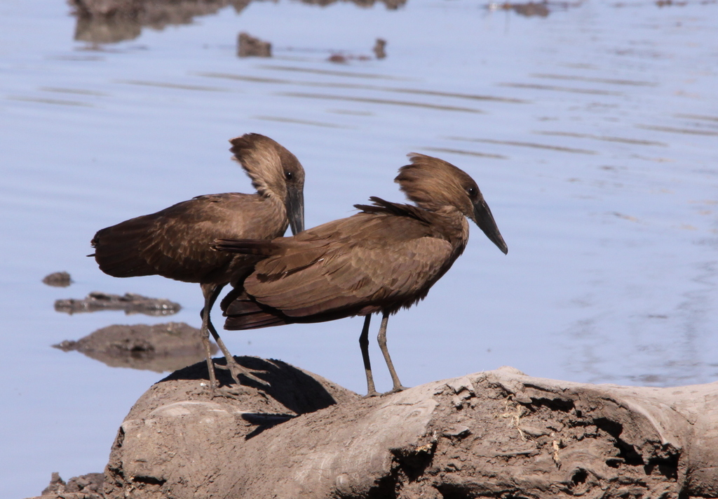 Two Hamerkops in Mapungubwe National Park, Limpopo Province, South Africa.